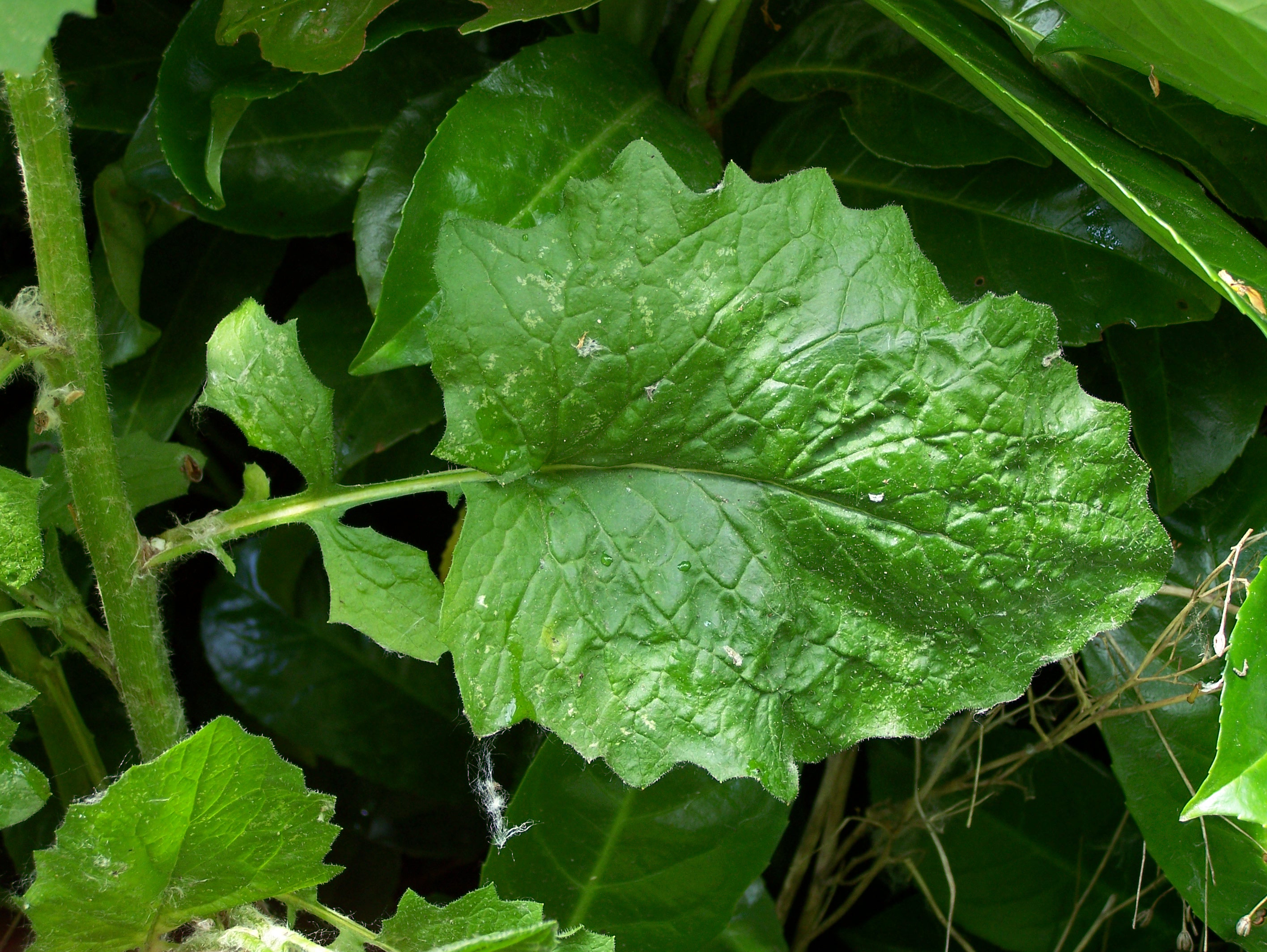 Species: Lapsána commúnis L. – common nipplewort. Length of leaf: 1.9 dm / 7.48 inches